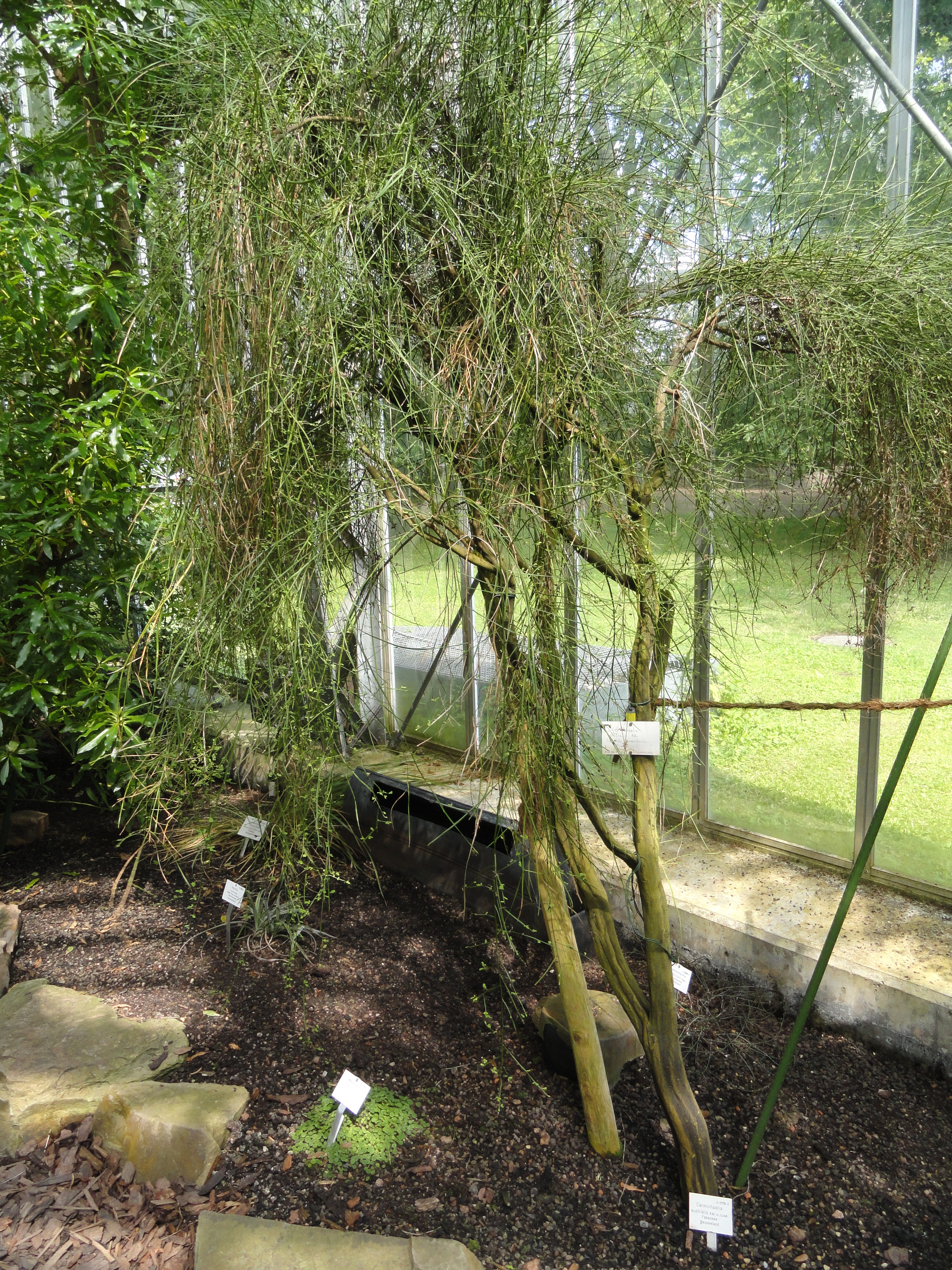 Botanical specimen in the Palmengarten, Frankfurt am Main, Germany.